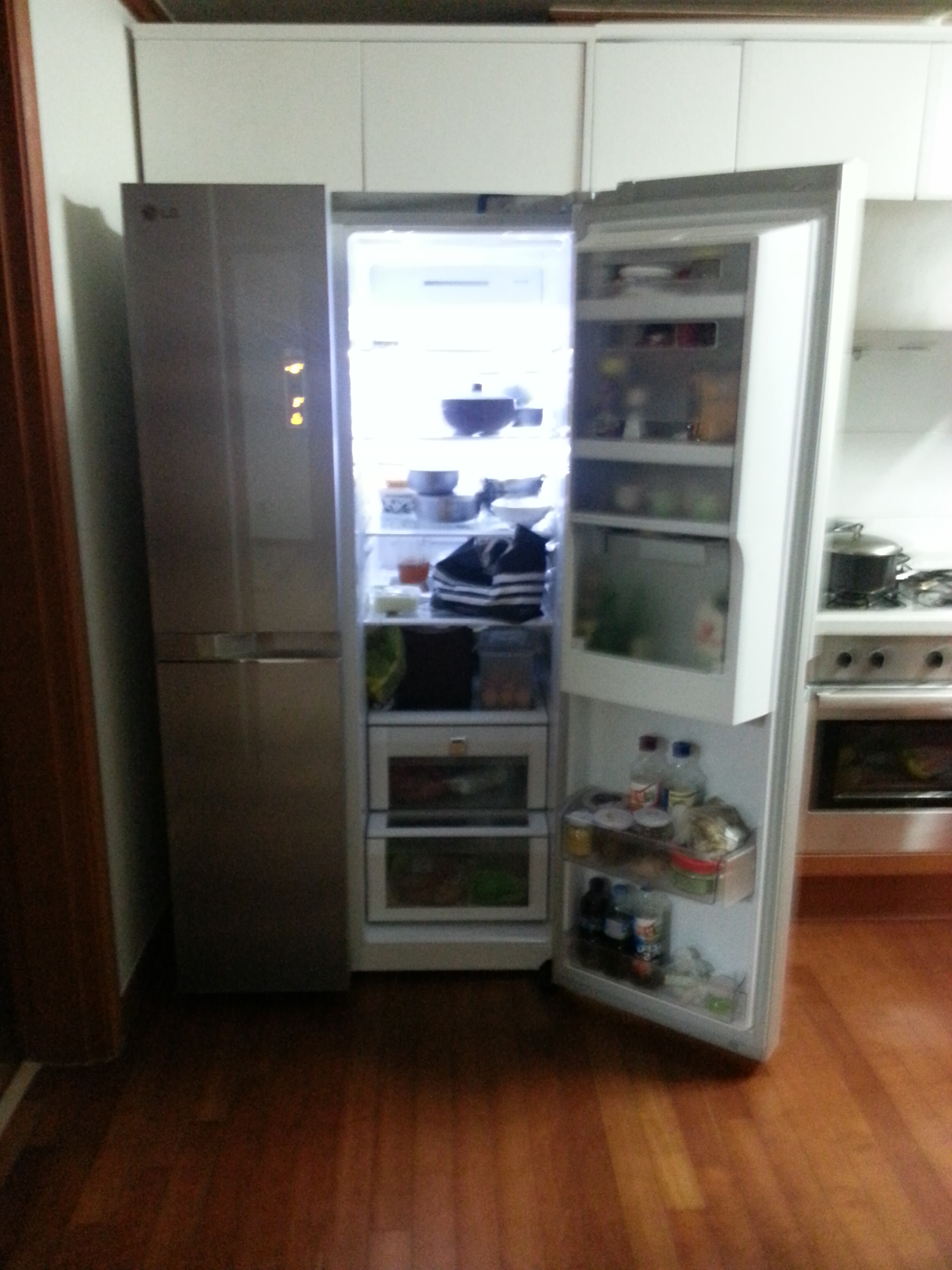 LG Refridgerator.